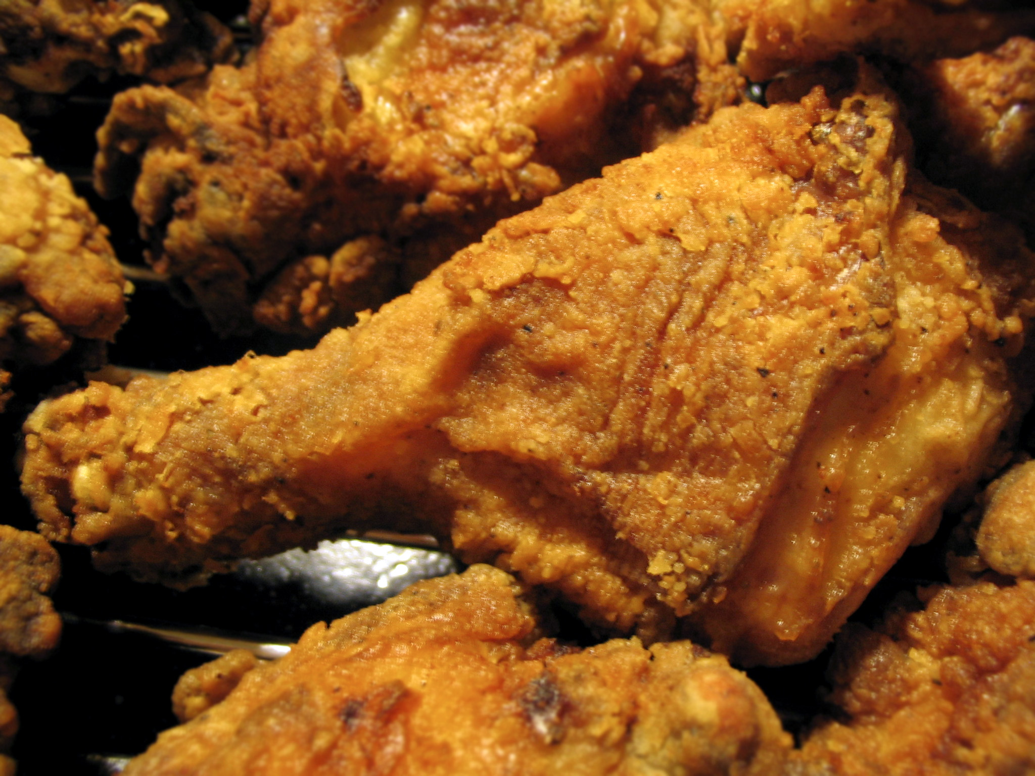 Several pieces of fried chicken.